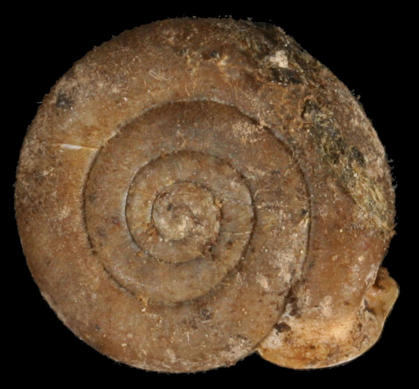 Photo of apical view of the shell of Causa holosericea. Locality: Austria: Bärental, 1240 m alt. Date: 03-06-1995.